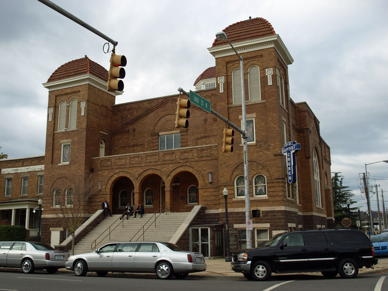 The Sixteenth Street Baptist Church in Birmingham, Alabama, listed on the National Register of Historic Places.